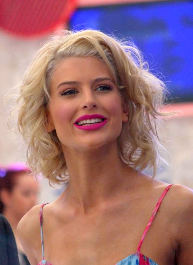 Sophie Van Den Akker at the MSFW@City Square Runway #1 - Decjuba and French Connection. Original by avlxyz at: Used on: Sophie Van Den Akker